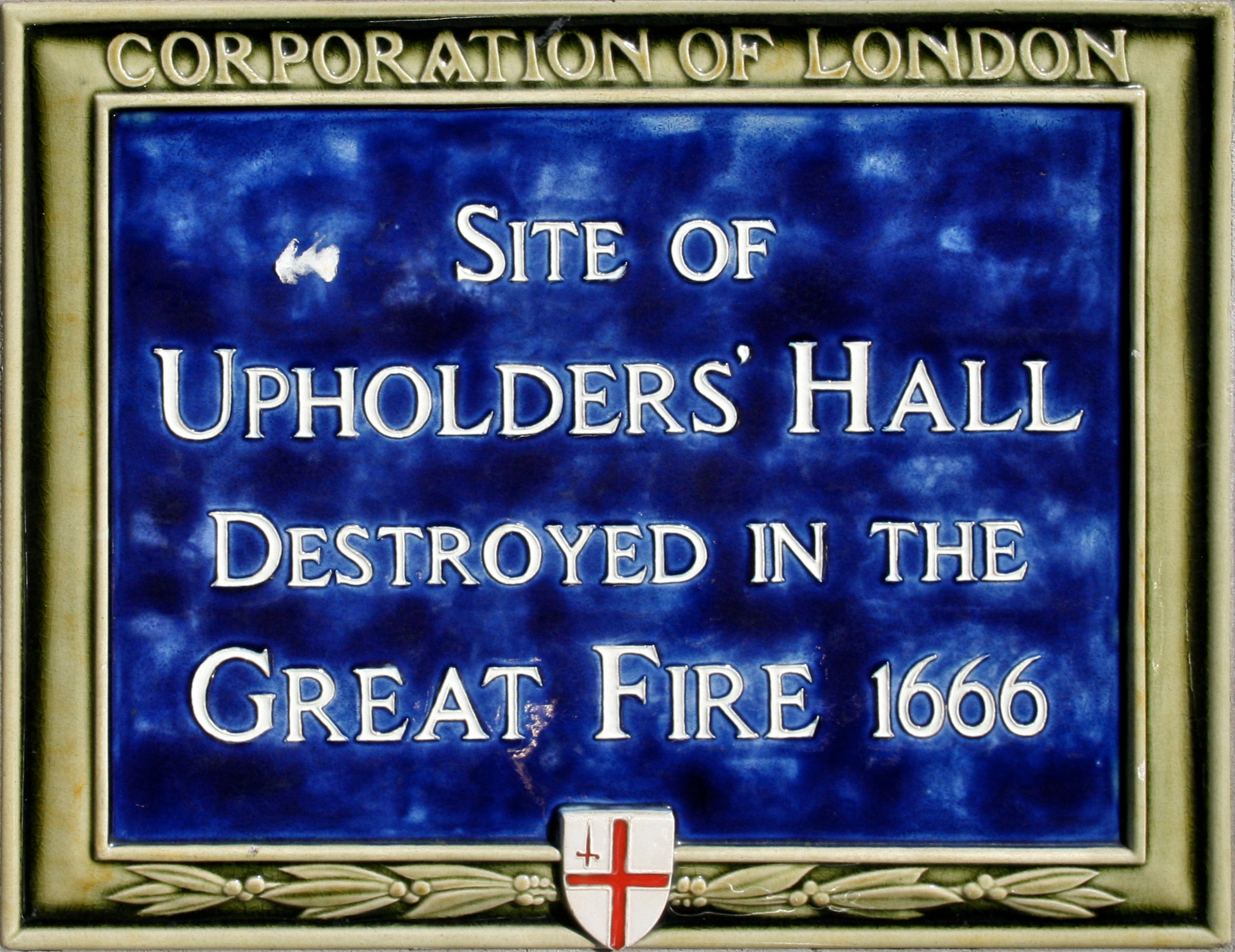 Plaque noting the site of the Upholders' Hall, destroyed in the Great Fire 1666..